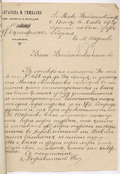 A Letter from Thessaloniki Bulgarian High School to Malko Tarnovo Municipality 17 October 1900